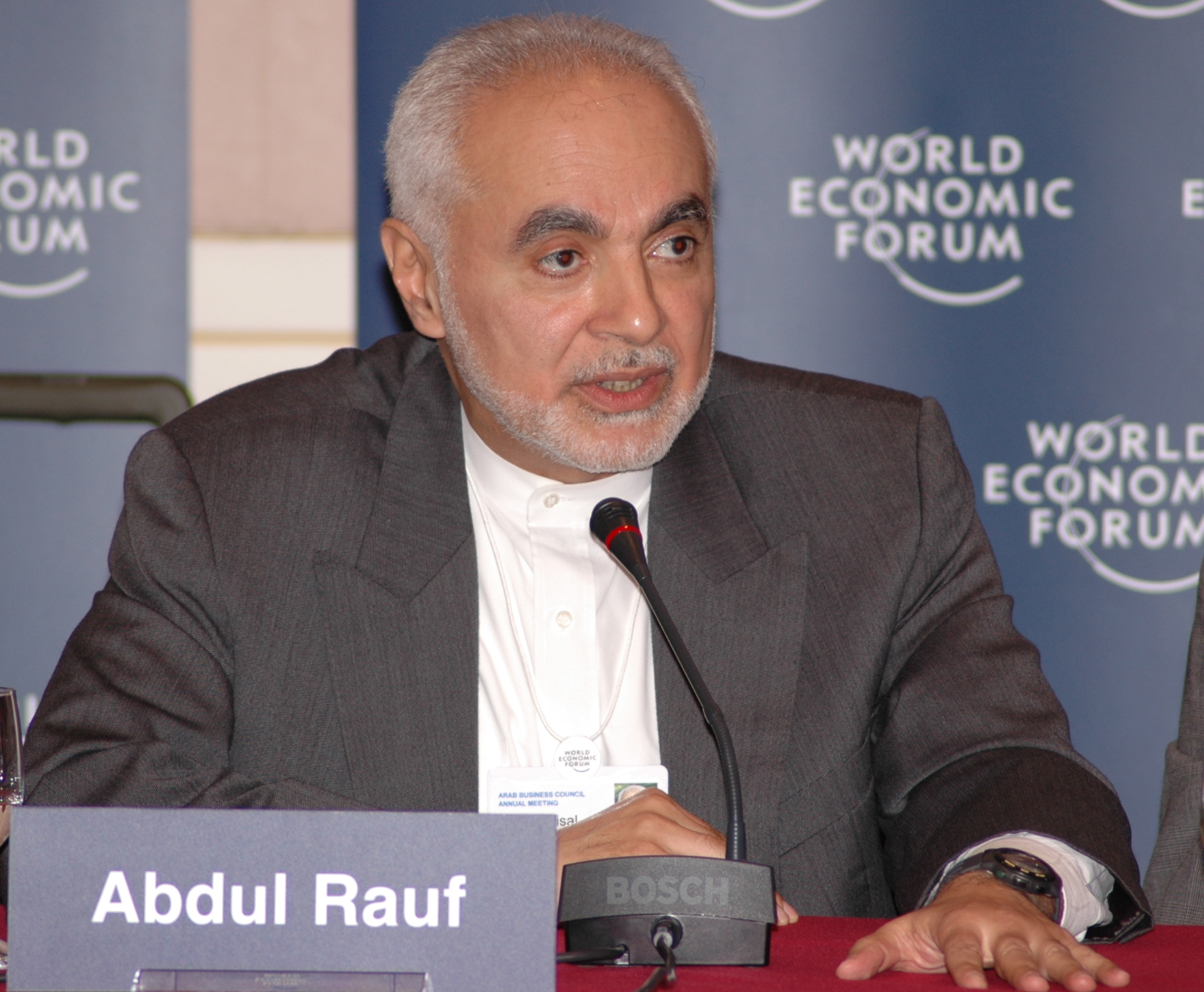 Imam Feisal Abdul Rauf at the Arab Business Council Annual Meeting 2005 in Manama, Bahrain, November 10, 2005.